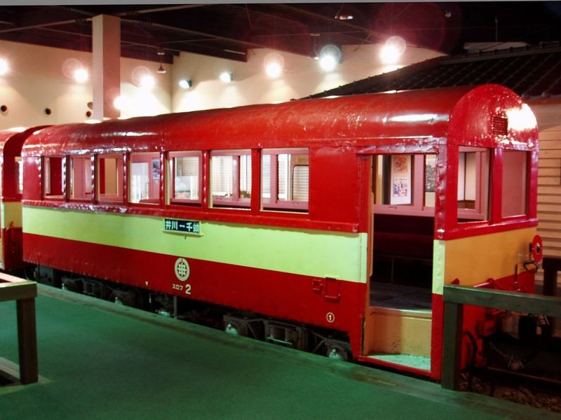 Oigawa Railway type Surofu2. at Shinkanaya Sta "PLAZA LOCO". 2007.10.10 Photo by Cassiopeia_sweet.